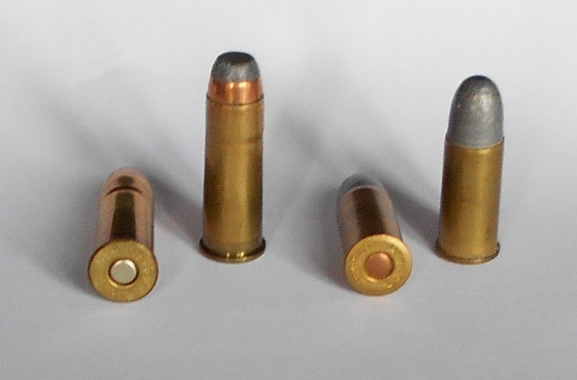 44-40 44Russian